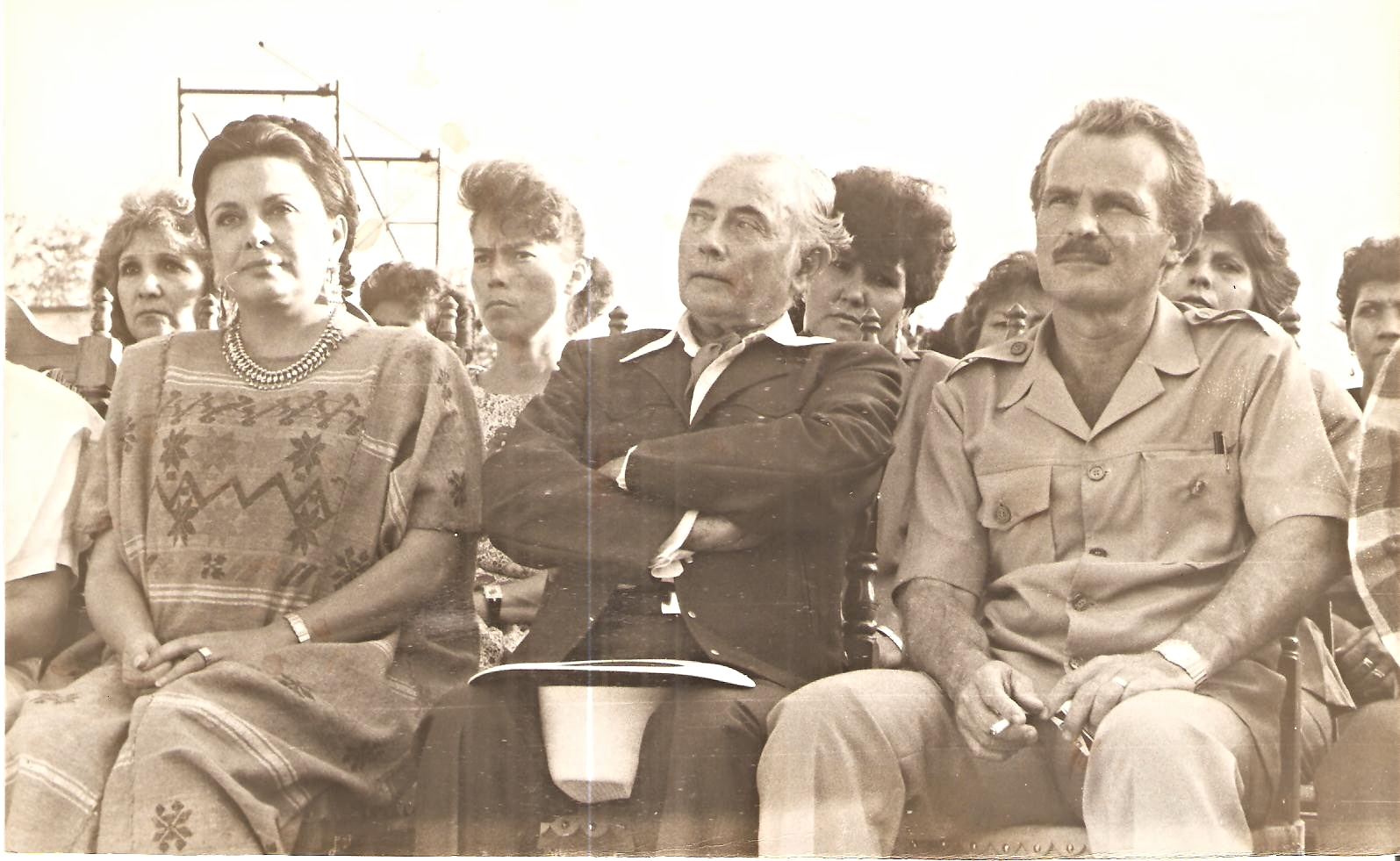 Personajes de la Historia Nacional